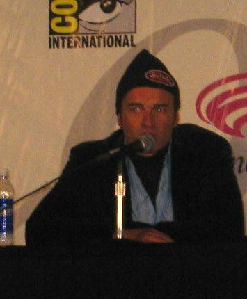 Julian McMahon